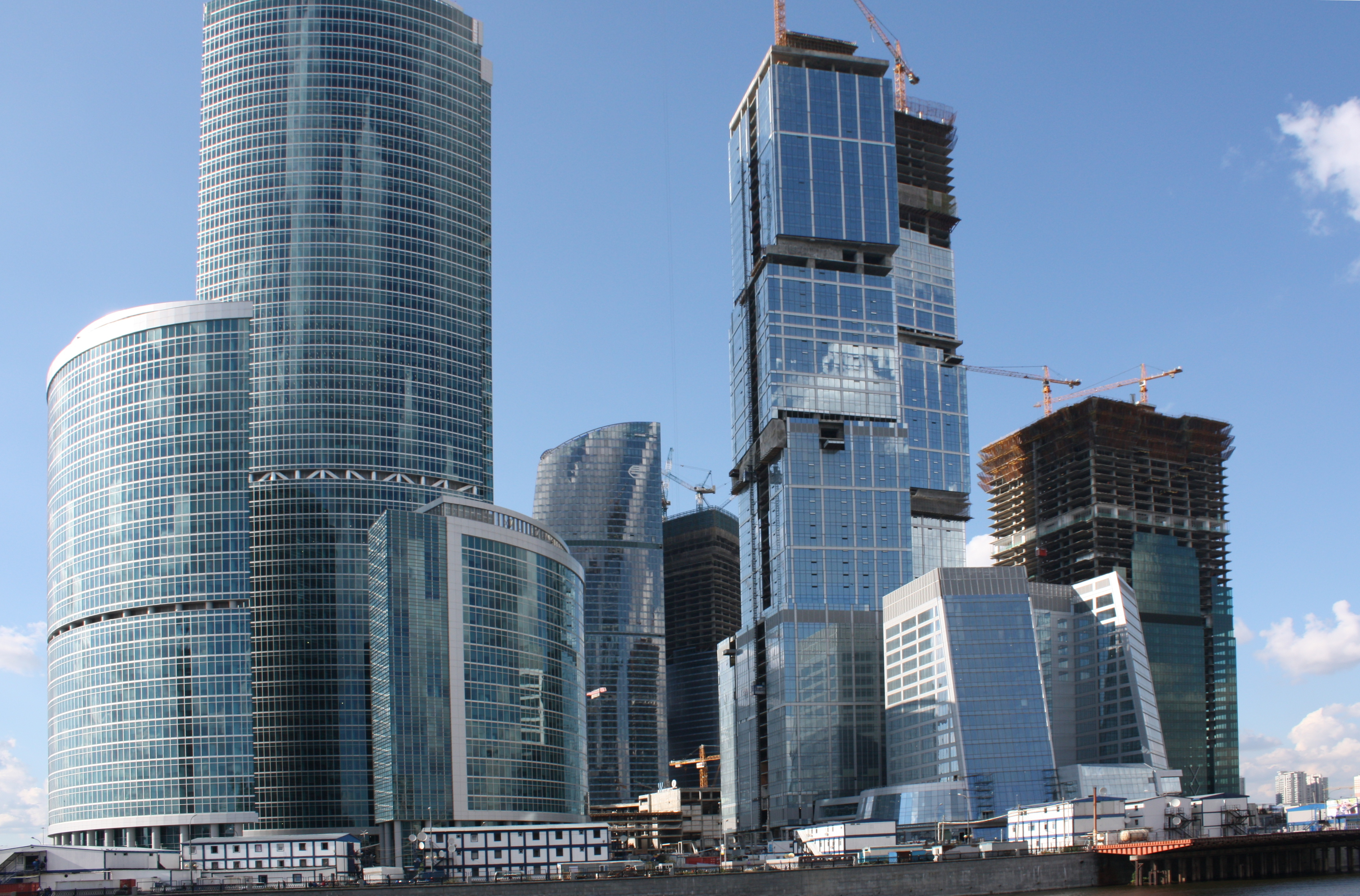 Moscow City - built district in Moscow. 21 July 2008.